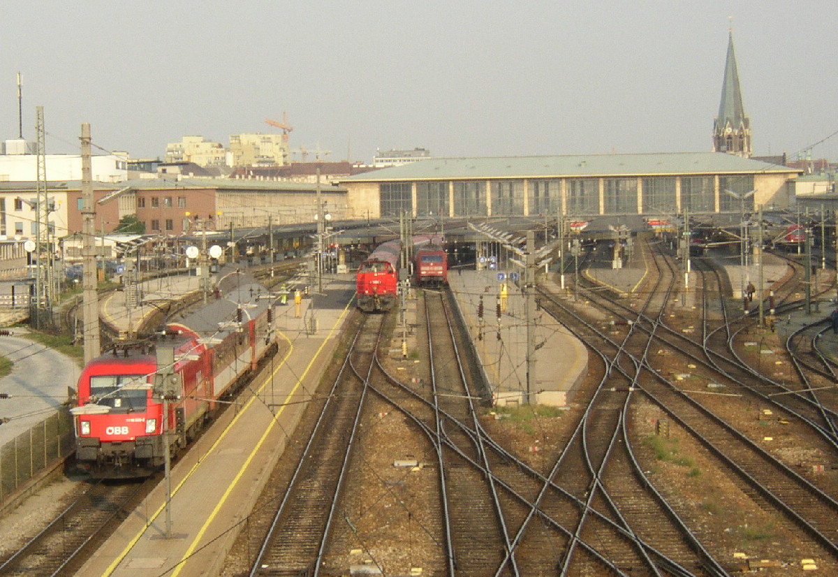 Wien Westbahnhof (Western Station, Vienna) as seen from the tracks and platforms